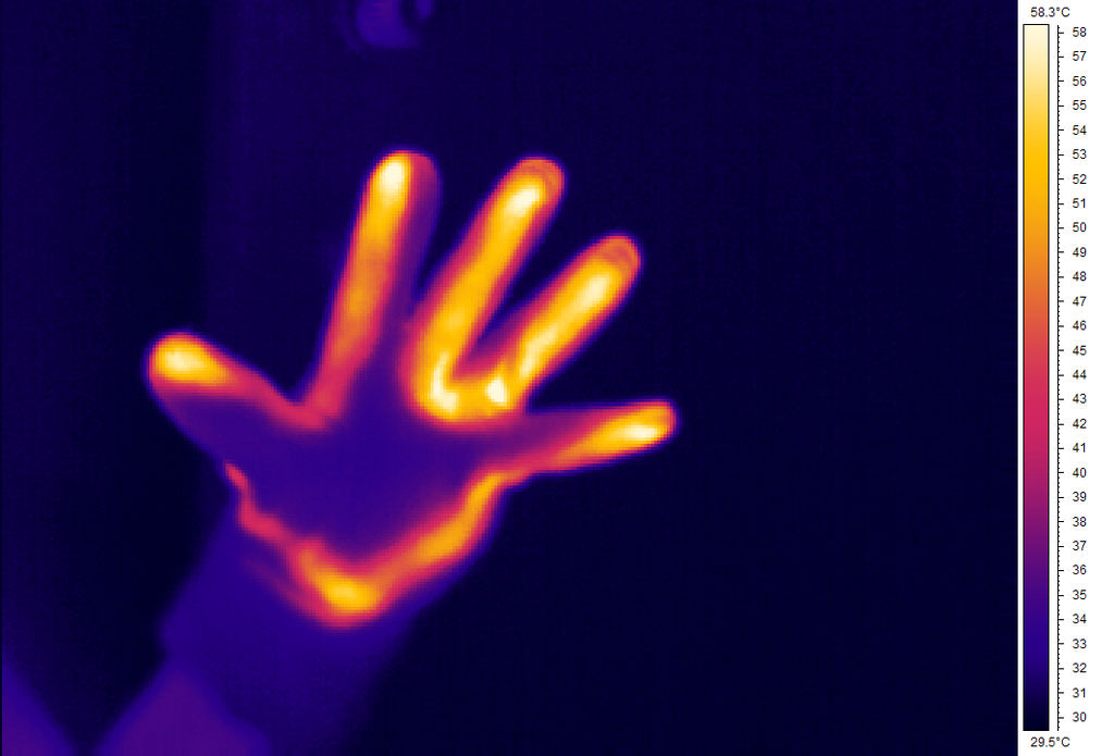 Carbon fiber tape heated gloves